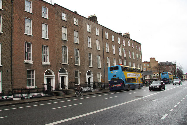 Lower Leeson Street Typical Dublin street scene with Georgian terrace